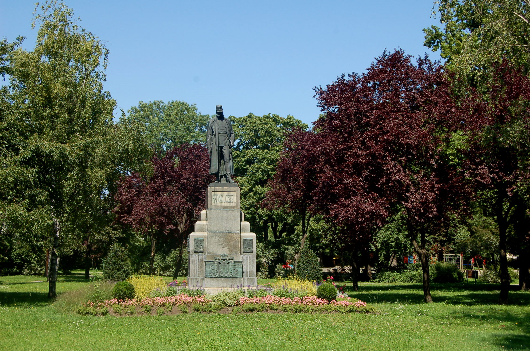 Monument of emperor Franz Joseph I of Austria in Stadtpark (i.e. Municipal park) of Wiener Neustadt, Lower Austria